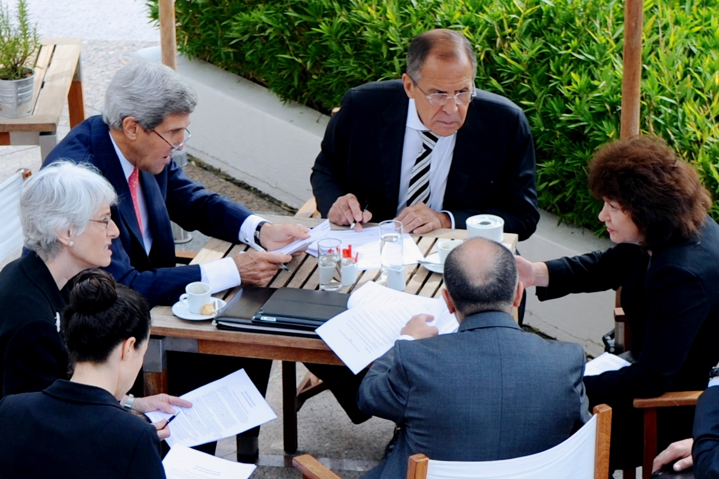 U.S. Secretary of State John Kerry and Russia foreign minister Sergey Lavrov, during final negotiating session over agreement to eliminate Syria's chemical weapons. September 14, 2013, Geneva Switzerland.